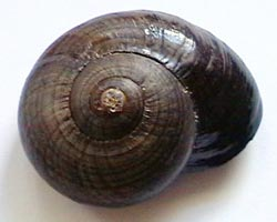 Photo of apival view of a shell of Powelliphanta hochstetteri. This is the shell of a land snail (Powelliphanta). It was filled with sand, so i'd imagine it was washed up on the beach.